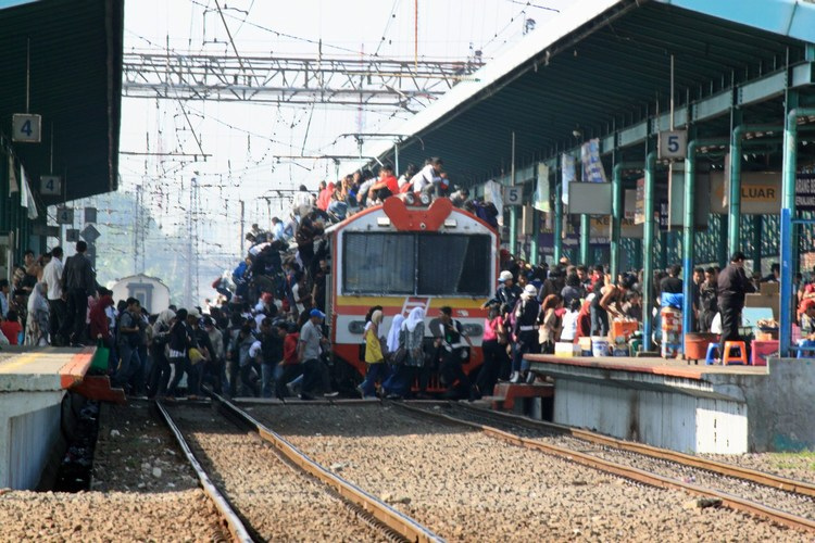 A crowded KRL electric multiple unit train with passengers riding on the outside in Jakarta, Indonesia.